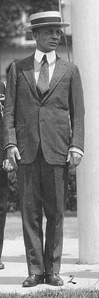 Photo #: NH 56936 Assistant Secretary of the Navy Theodore Roosevelt, Jr. (left, front) During a visit to the Naval Training Station, Newport, Rhode Island, circa 1923. Also present in the front row are Lieutenant Commander Charleton E. Battle, Jr., of the Newport Training Station, and Rear Admiral Clarence S. Williams, President of the Naval War College. Standing behind and to the left of Mr. Roosevelt is Commander Robert L. Ghormley, Aide to the Assistant Secretary of the Navy. Note old, and well-polished, Dahlgren boat howitzers flanking the flagpole. U.S. Naval Historical Center Photograph.